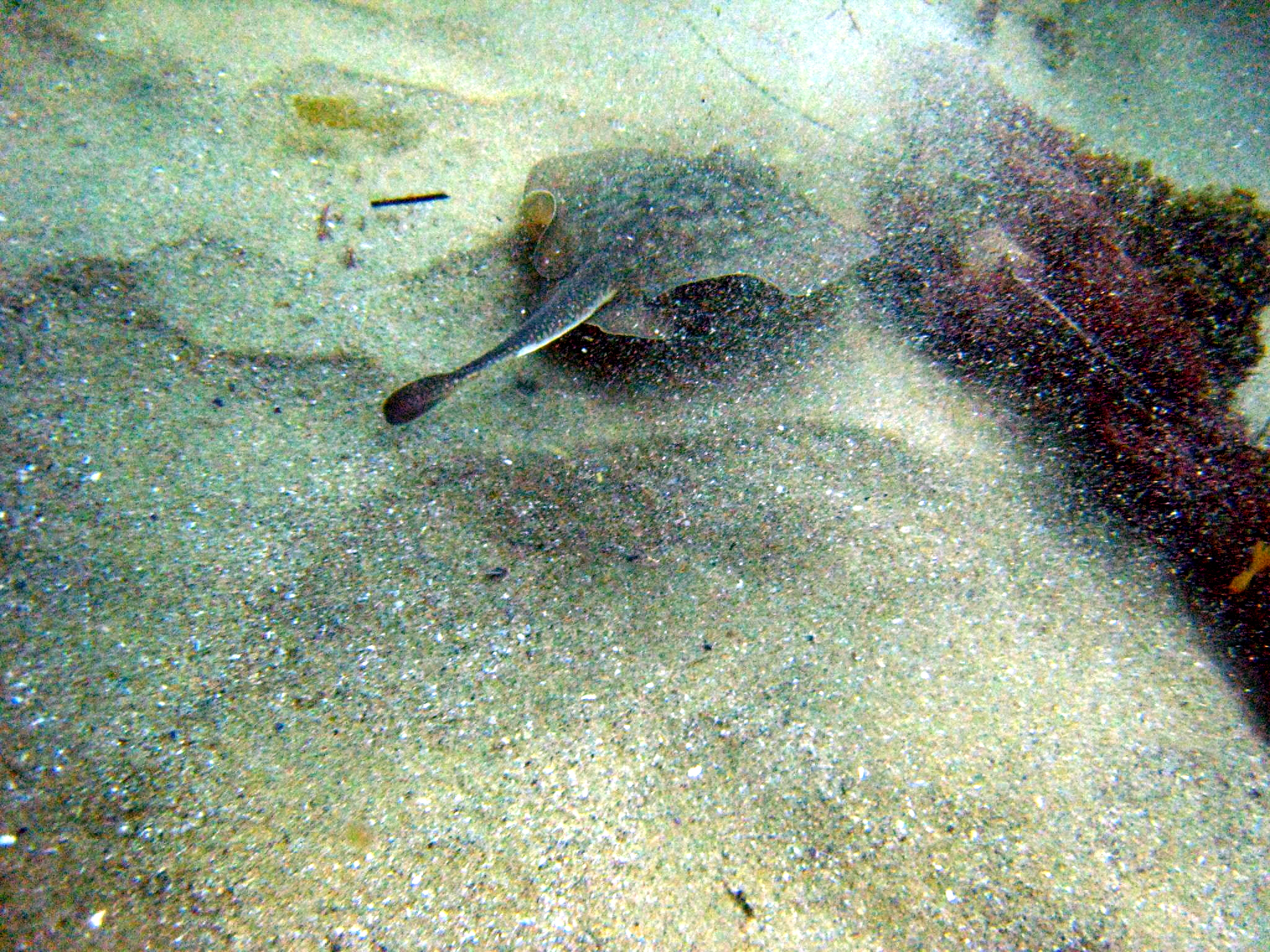 Round stingray (Urobatis halleri) at Laguna Beach, California